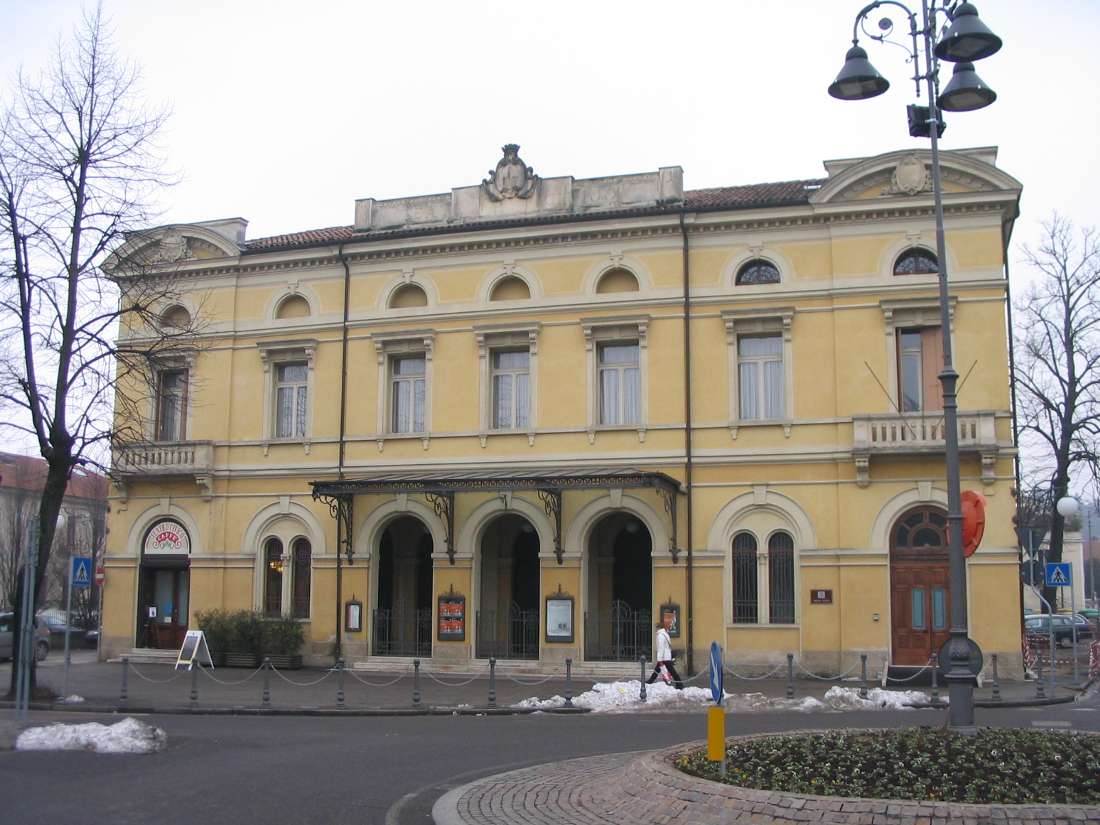 Photo By wanblee